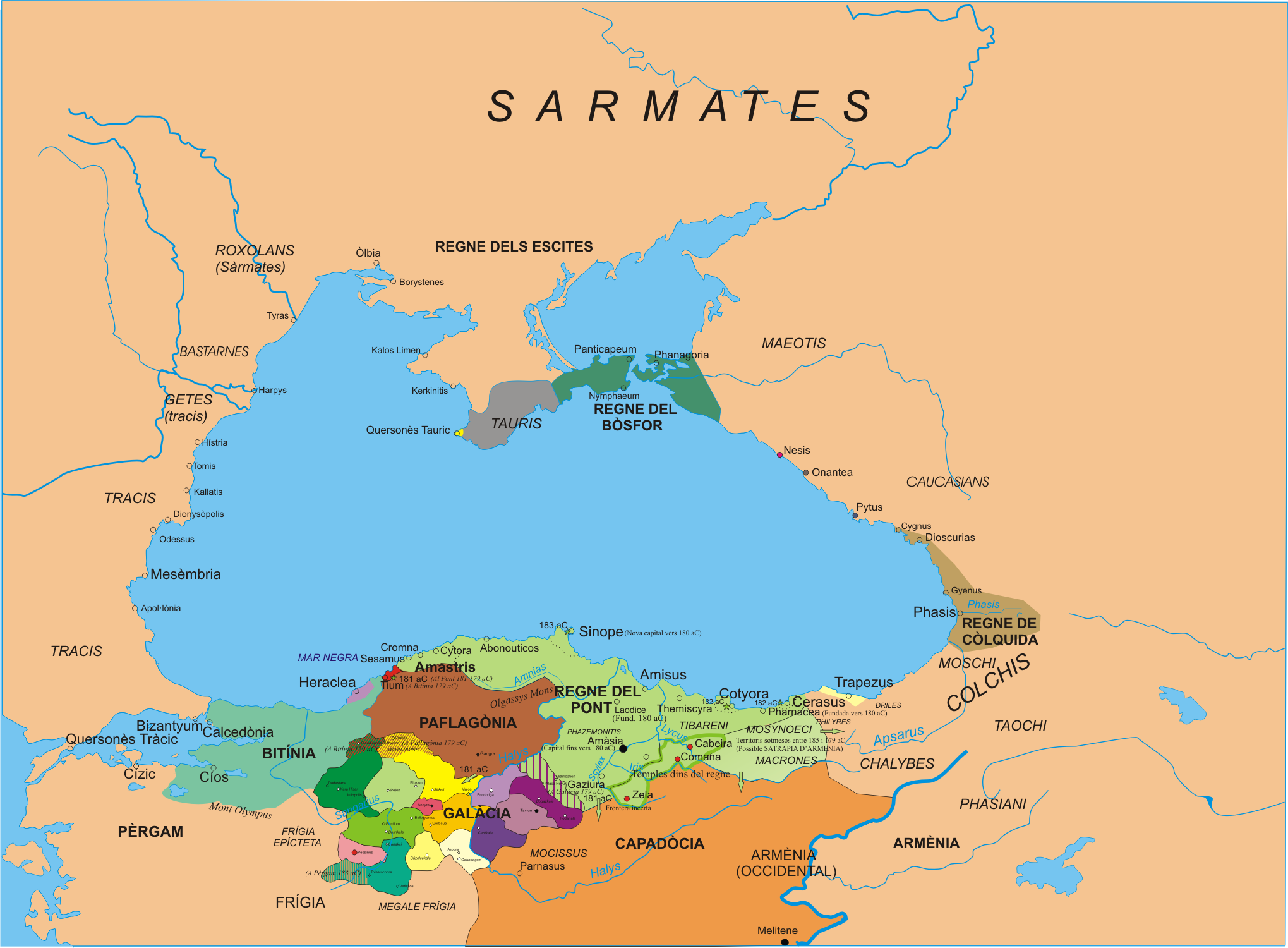 Pontus 188-160 BC